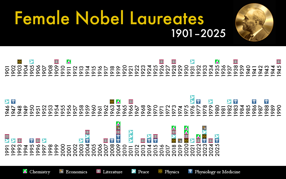 Chart of Nobel prizes won by women, by year